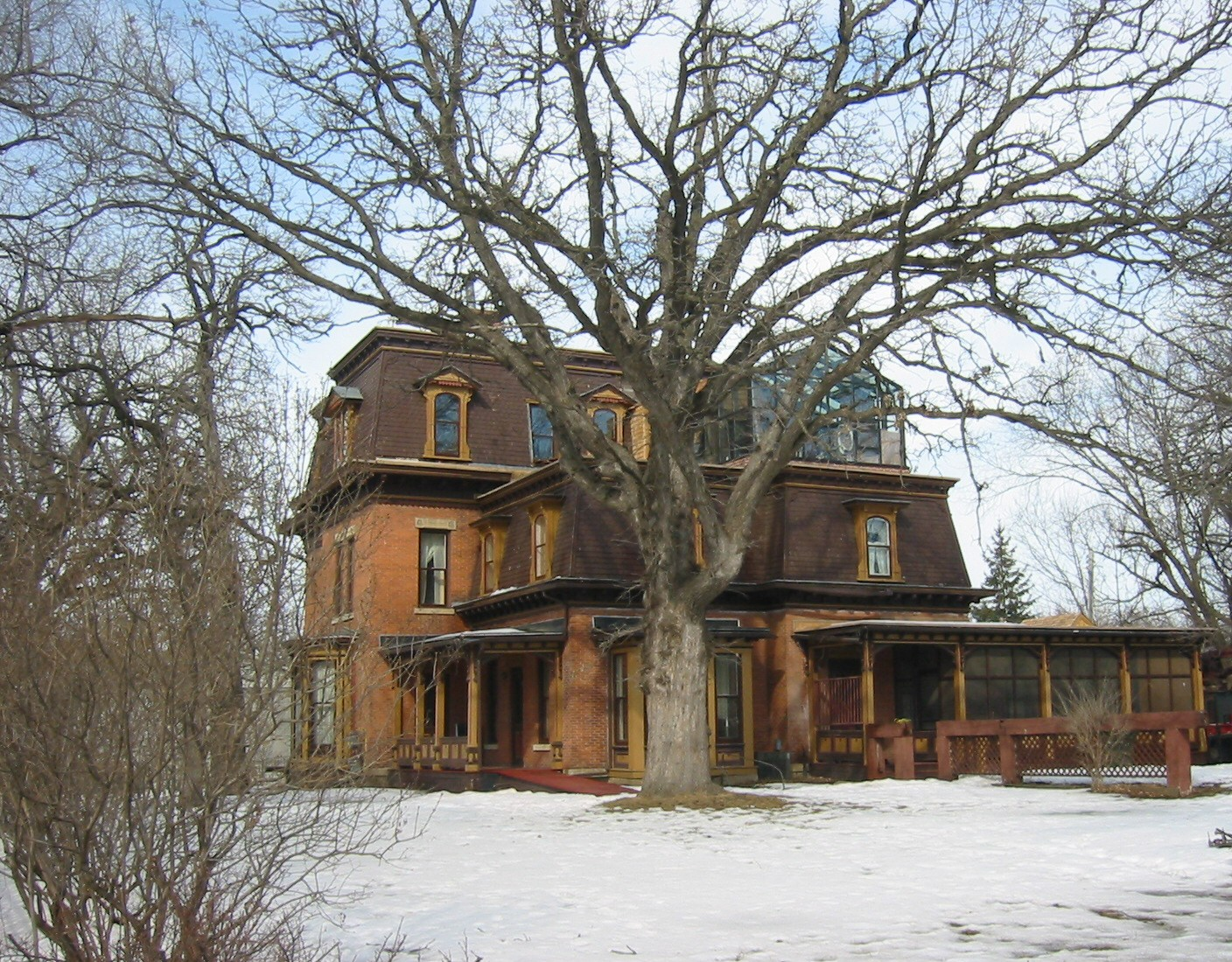 Thompson-Fasbender House in Hastings, Minnesota.